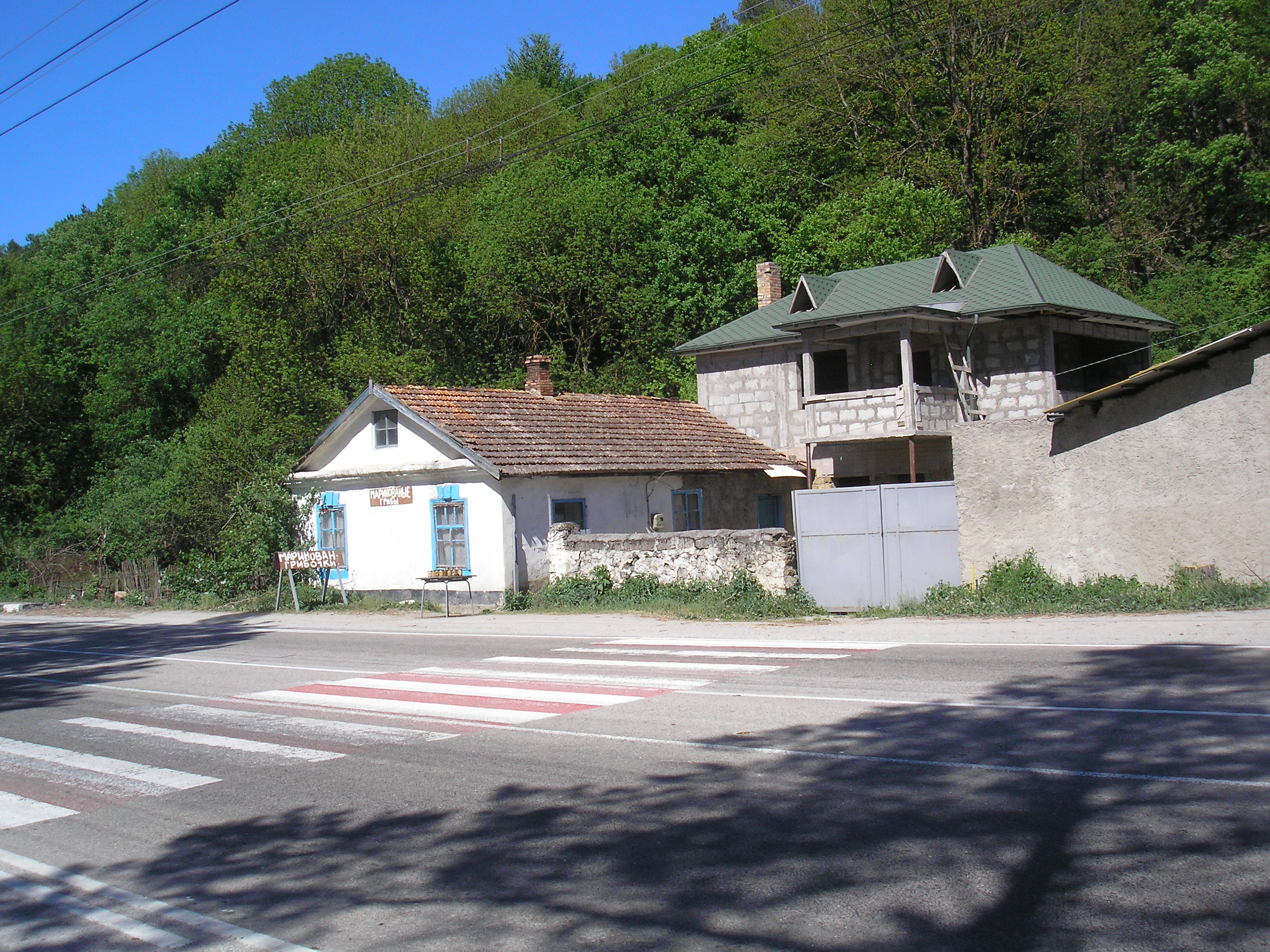 Privolnoye village in Simferopol region of Crimea